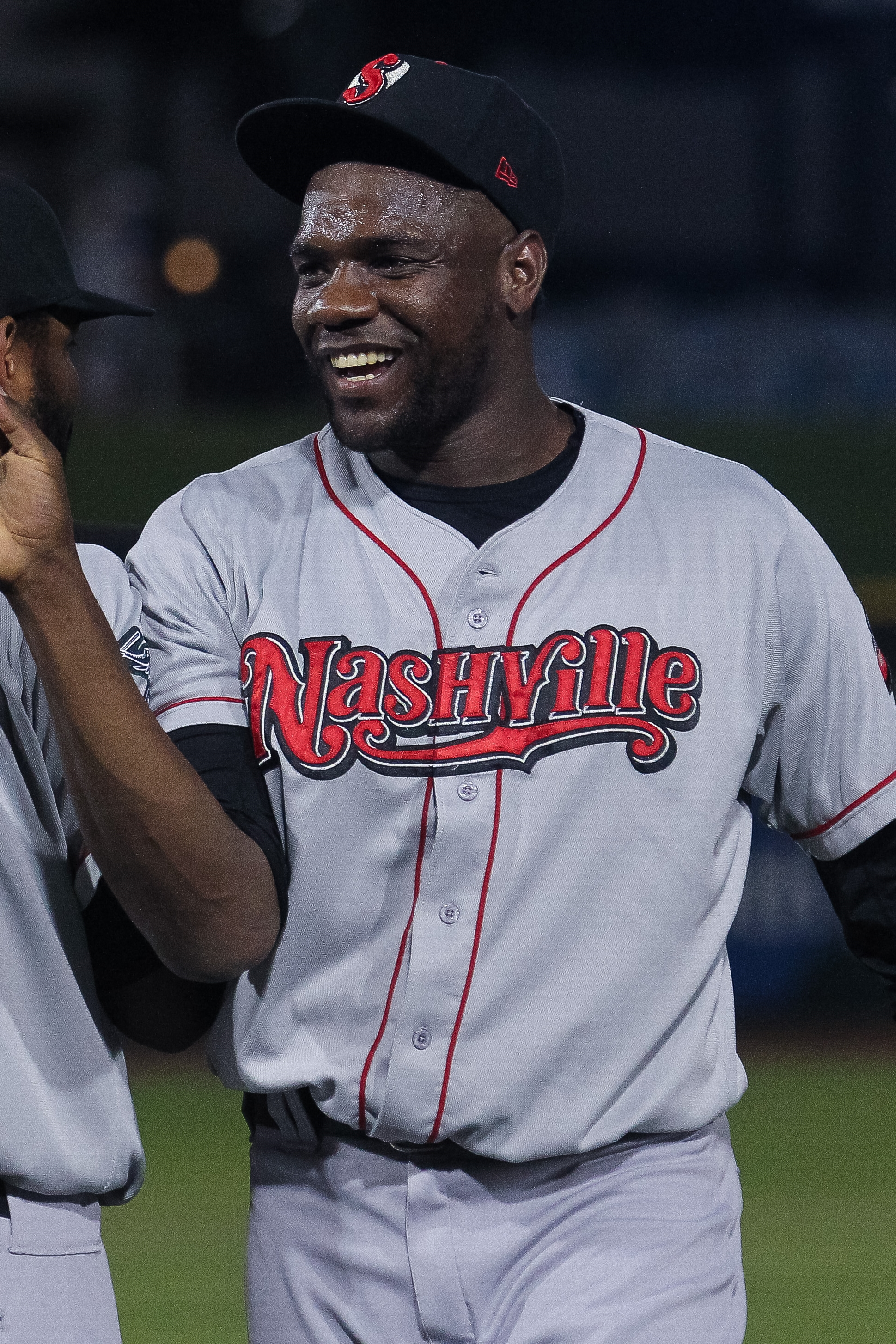 Simon Castro pitched the final inning of a combined no-hitter for the Nashville Sounds on June 7, 2017; by Minda Haas Kuhlmann USAGE INSTRUCTIONS: You are welcome to share or publish to your own site or social media account, but you MUST credit me, Minda Haas Kuhlmann, or by my Twitter handle (@minda33) or Instagram (minda.haas).